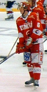 Ice hockey player Anton Strålman of Timrå IK in E.ON Arena, Timrå, Sweden